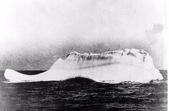 This is a scanned copy of the photographic print of the iceberg with which the RMS TITANIC supposedly collided on April 14, 1912. This print was in possession of Captain De Carteret, the Captain of the Cable ship MINIA, reportedly stated that this was the only iceberg near the scene of the collision. The MINIA was one of the first ships to reach the scene following the disaster. It was dispatched after the Western Union Cable ship MACKAY BENNET by White Star Lines to recover debris from the Titanic. During this operation, the MINIA found debris and bodies floating in the vicinity of the above iceberg. Therefore, it is assumed that this is the iceberg that the TITANIC struck. Captain De Carteret gave the print to Captain A. L. Gamble, Commanding Officer of the USCGC SENECA.